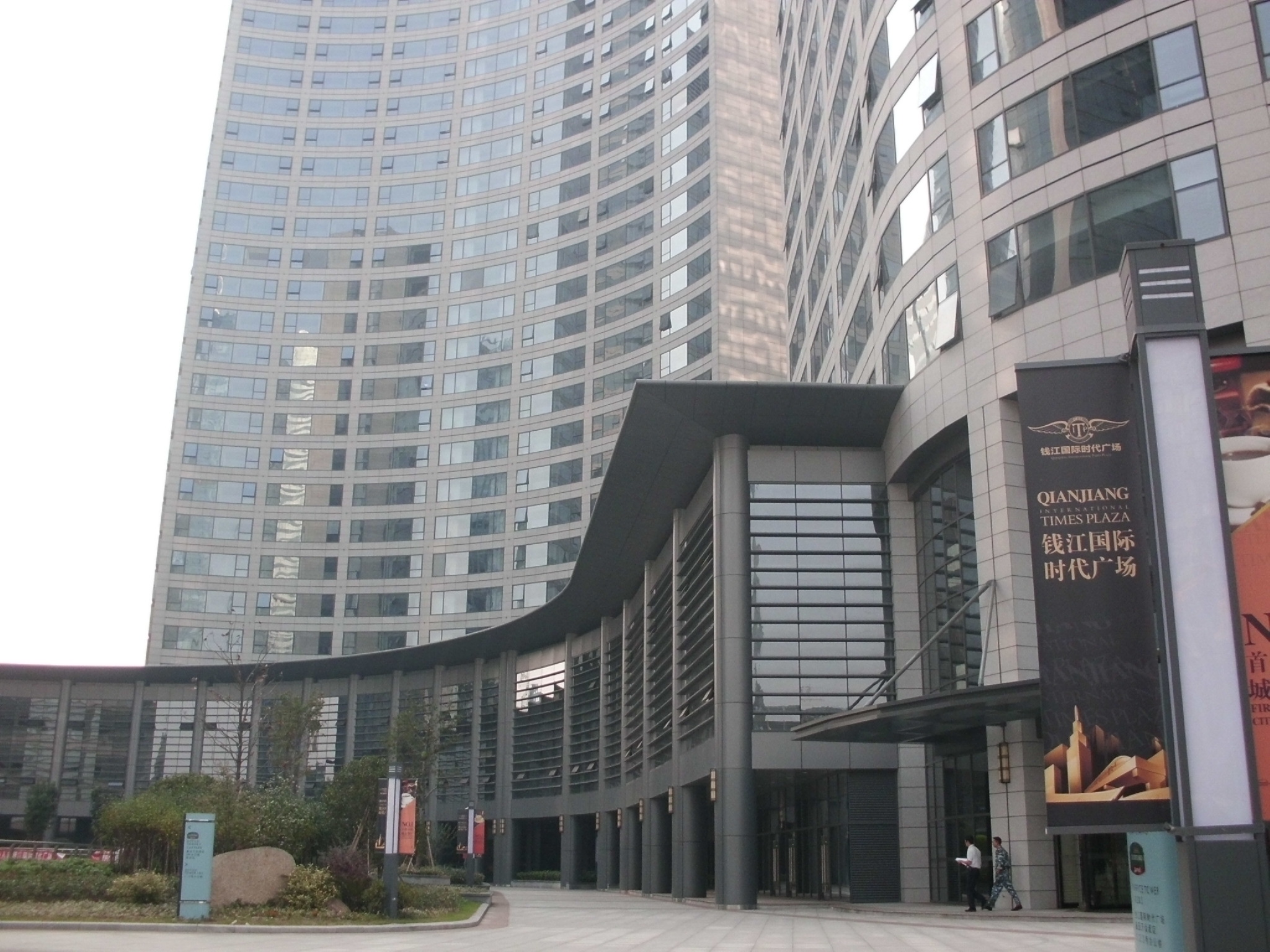 Qianjiang international times plaza